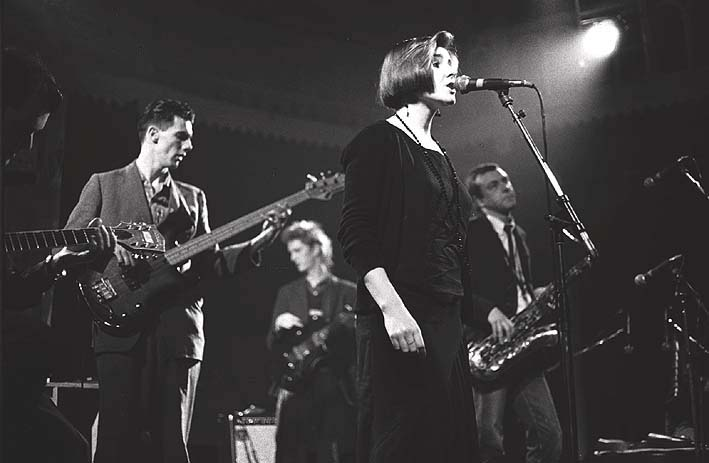 The European tour. Live in the Netherlands February 5, 1983